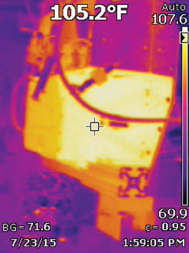 IR imagery of RF amplifier and heat sink